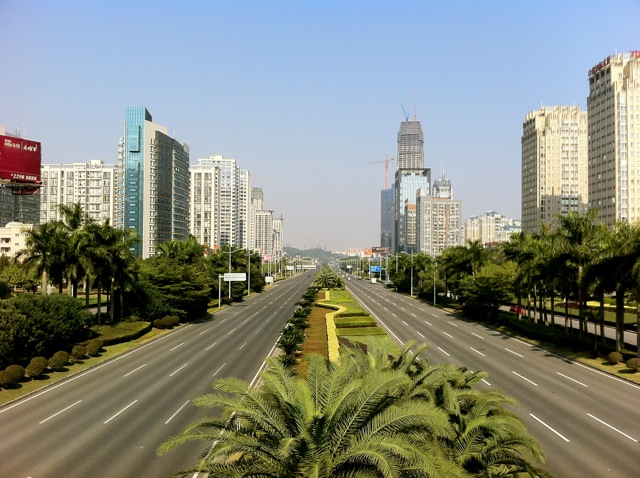 Dongguan Avenue (CBD) facing north from Sanyuan Road and Chantai Road overpass.